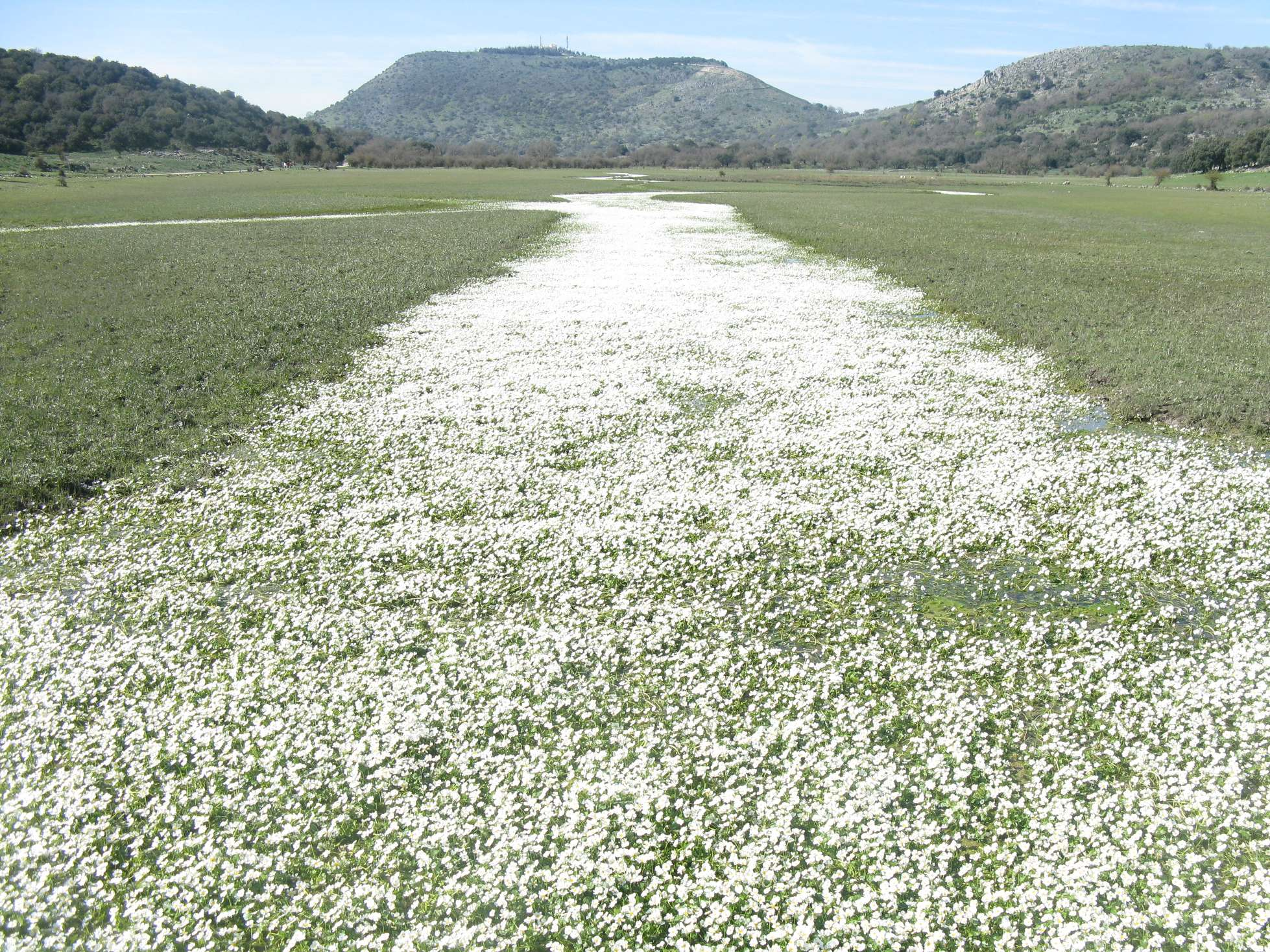 polje Cabra near Cabra (Córdoba) (rural town in the Córdoba province). River Bailon, blossoming out in springtime, crosses the depression.